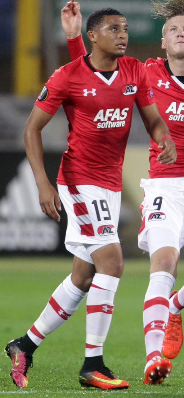 Dabney dos Santos playing for AZ in a game against FC Zenit Saint Petersburg